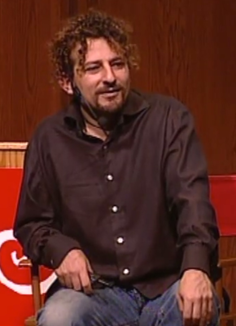 David Wolfe, guest speaker at the Institute for Integrative Nutrition and author of "Eating for Beauty," explains how raw food, living foods, super foods, super herbs and living vegetable juices can transform the quality of your life. Learn more about the Health Coach Training Program